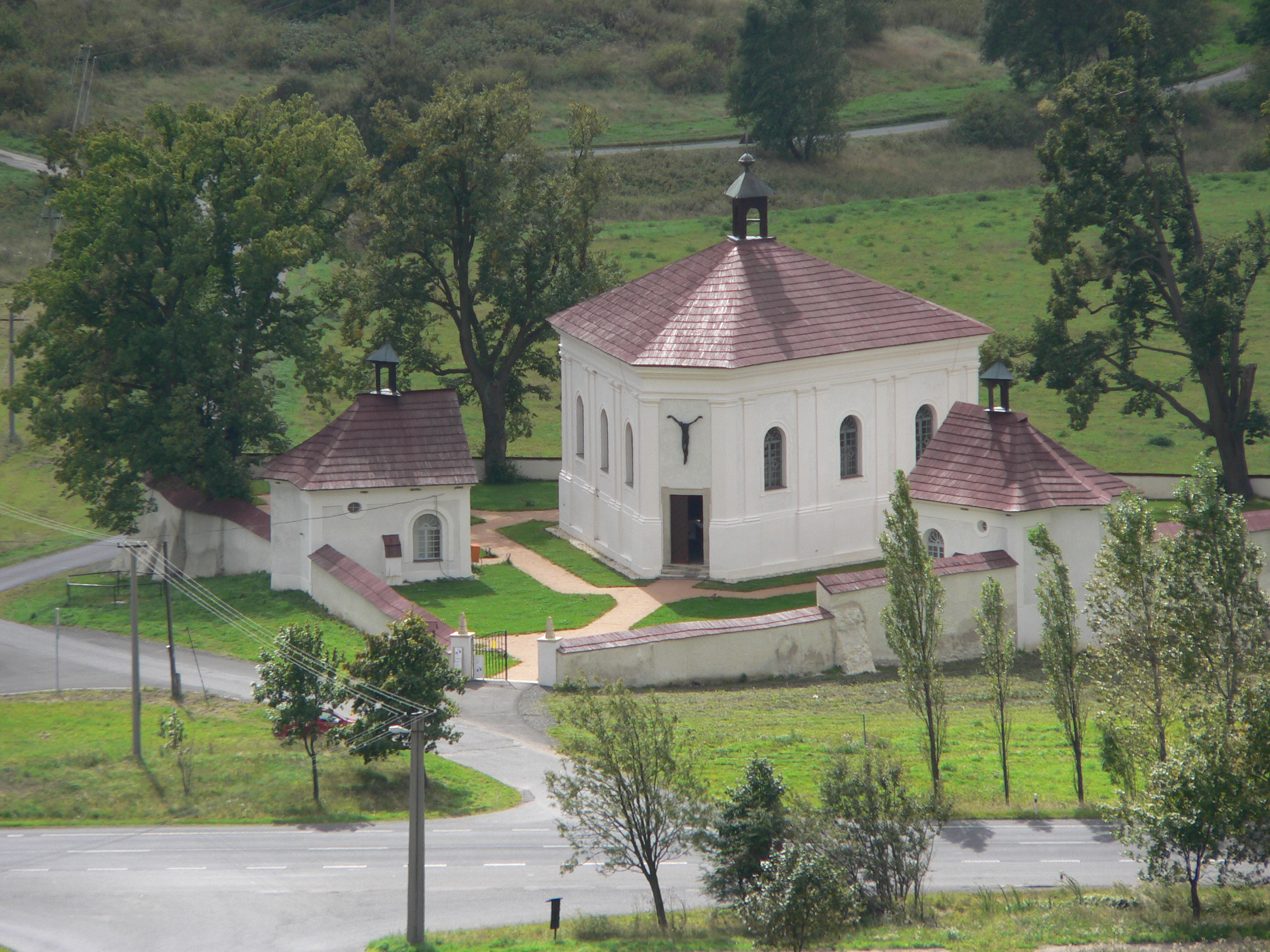 Church of the Holy Trinity in Andělská Hora (Karlovy Vary District, Czech Republic) as seen from the castle